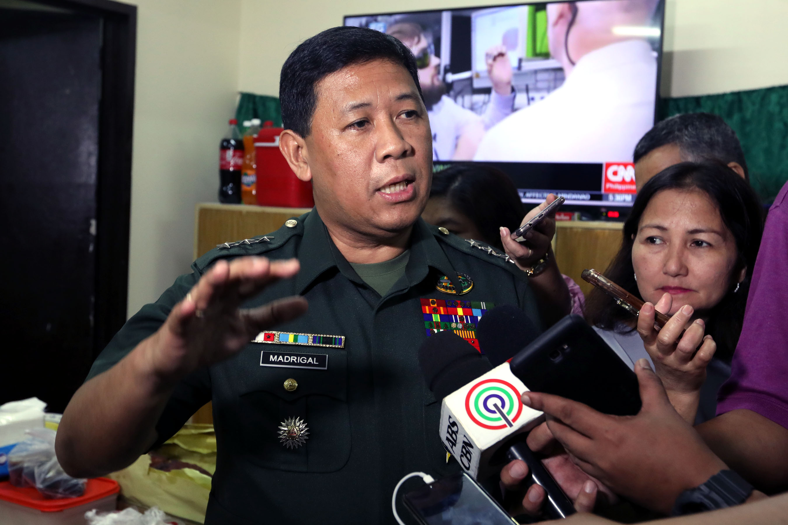 Philippine Armed Forces chief of staff, Lt. Gen. Benjamin Madrigal, said the New People's Army (NPA) cannot be trusted to keep their unilateral ceasefire during the Yuletide Season in an interview held at Camp Emilio Aguinaldo in Quezon City, on Wednesday (December 19, 2018).